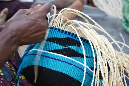 The Kamba people are very talented when it comes to weaving baskets